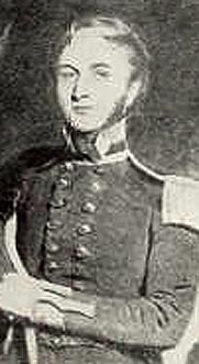 Black and white picture of John Wickham.